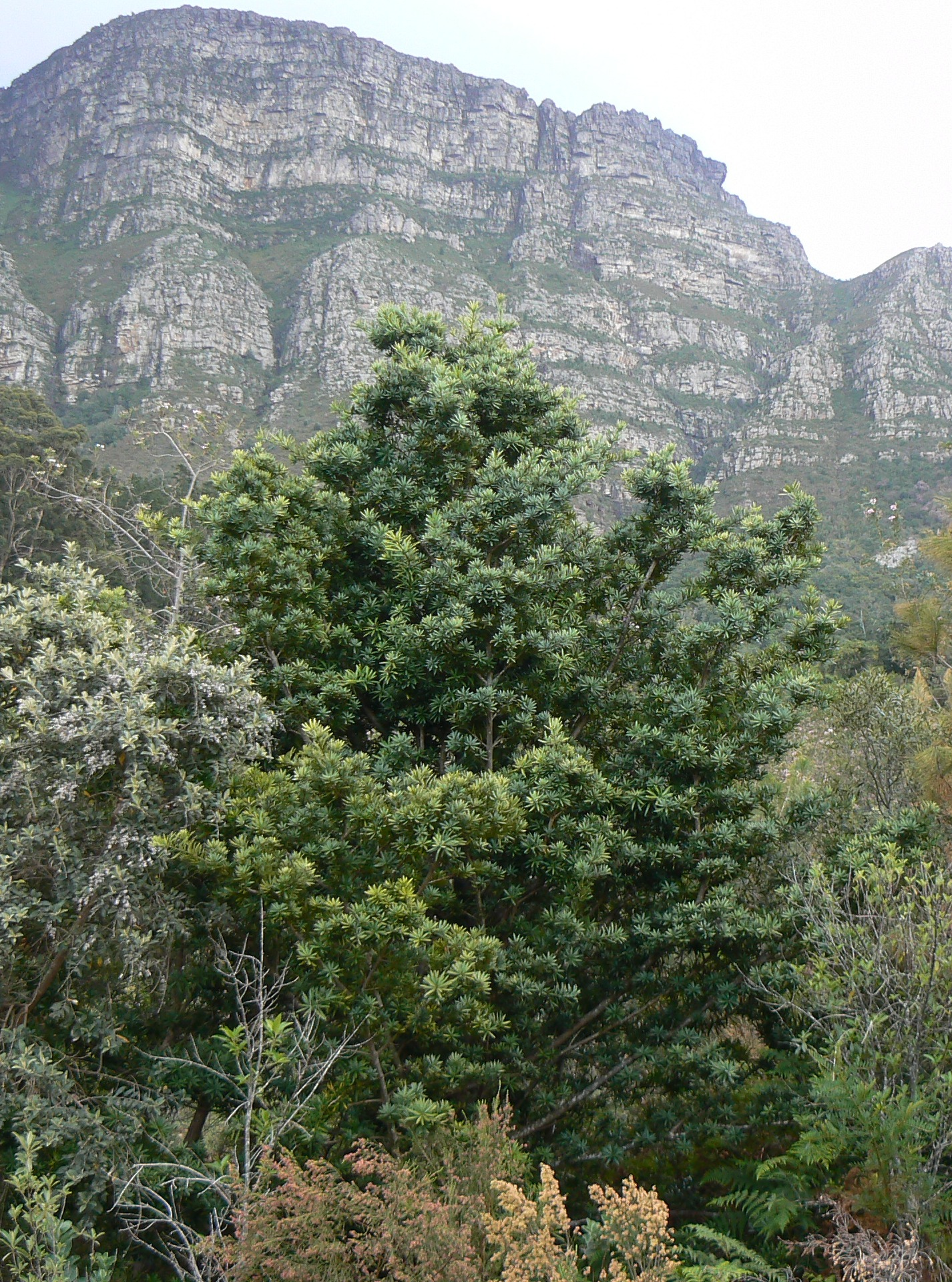 A small Podocarpus latifolius or Real Yellowwood. Growing on the lower eastern slopes of Table Mountain.